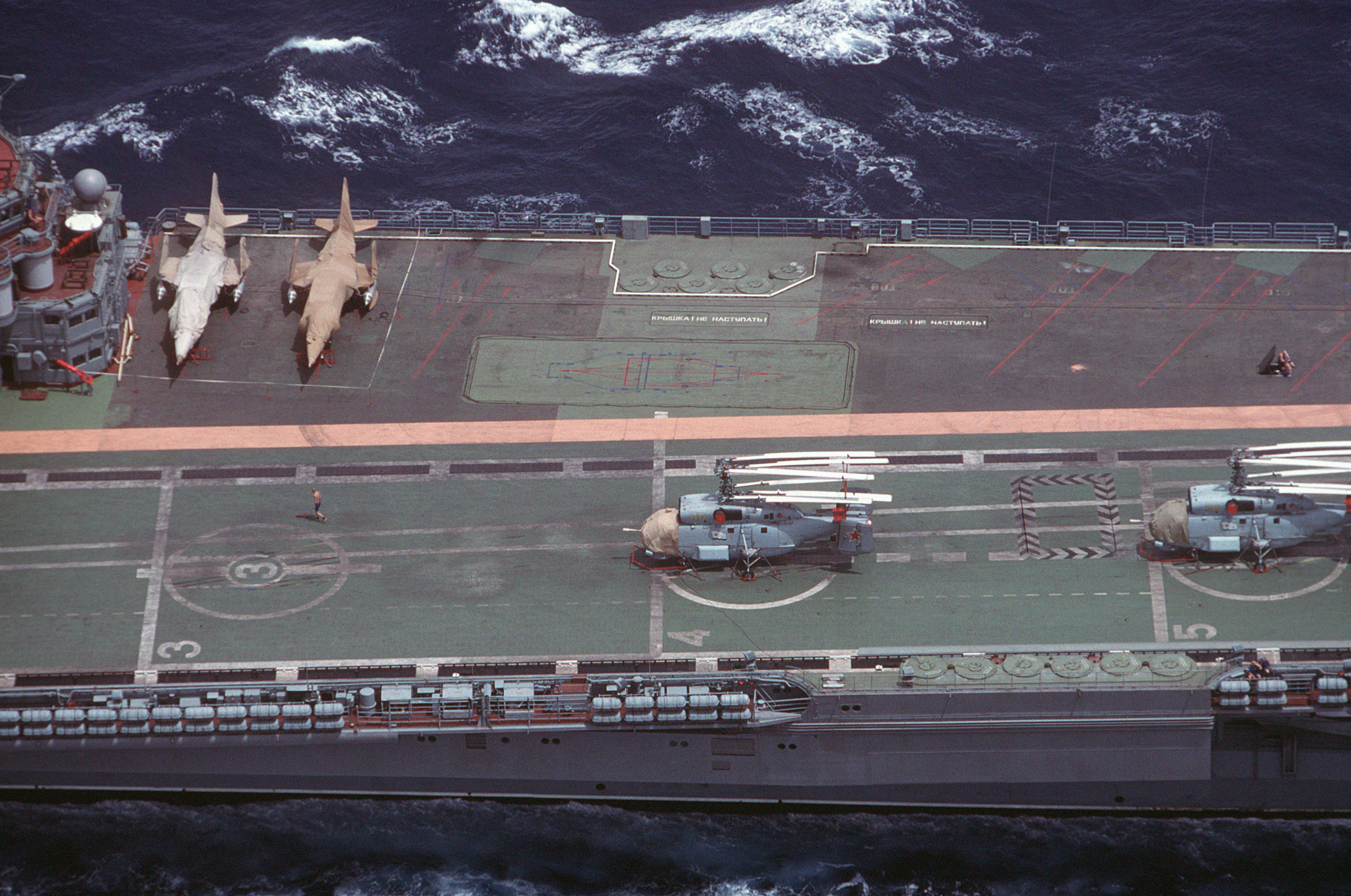 An aerial view of Ka-27 Helix helicopters and covered Yak-38 Forger aircraft on the flight deck of the Soviet Kiev class VSTOL aircraft carrier BAKU (CVHG 103).